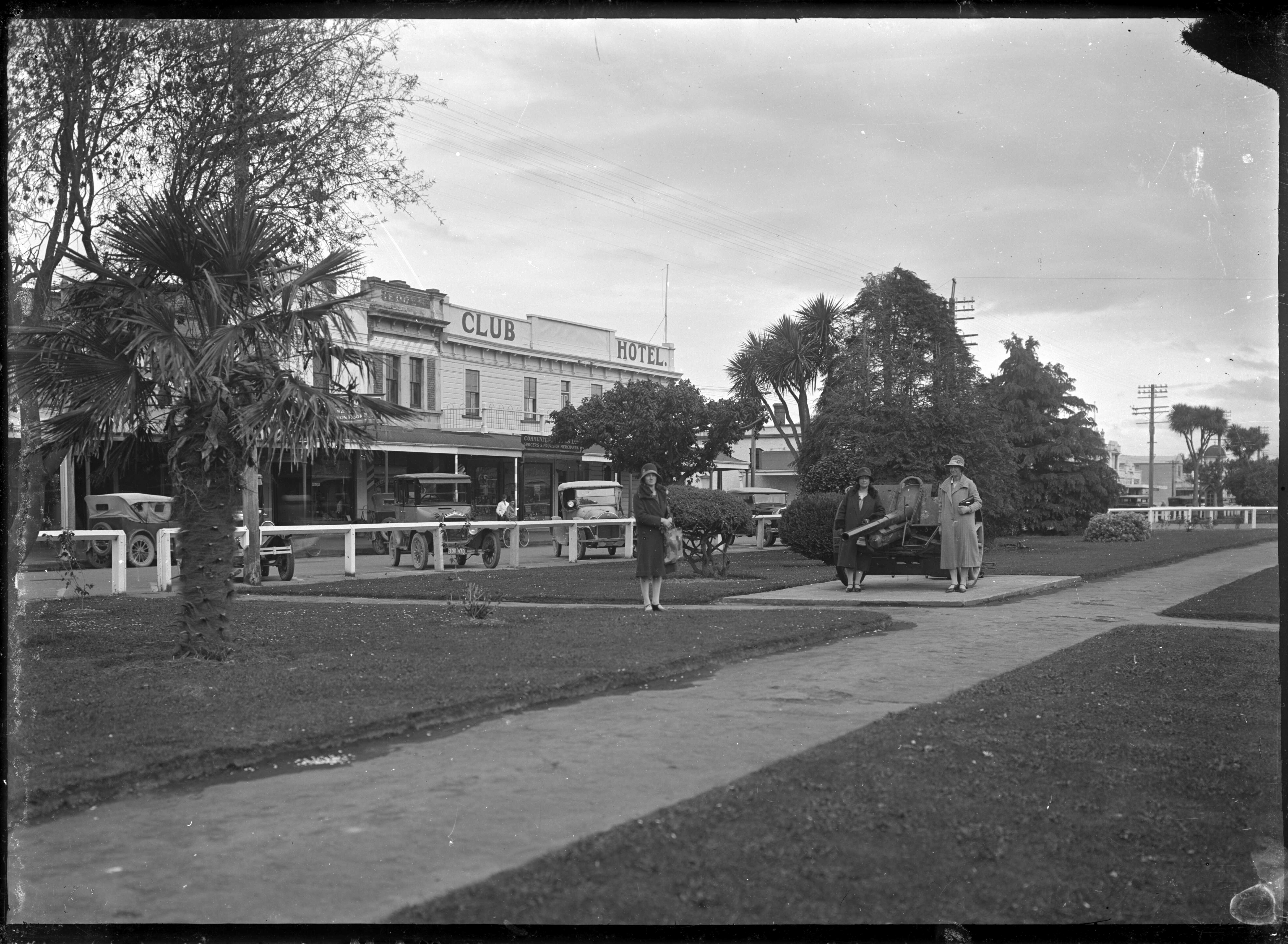 View of the main street in Pahiatua, showing three women standing beside a World War I field gun. They are in a park down the centre of Pahiatua, with cars parked alongside, and the Club Hotel across the road. The woman on the right of the gun is probably the photographer's wife, Laura Godber. Photographed by Albert Percy Godber.